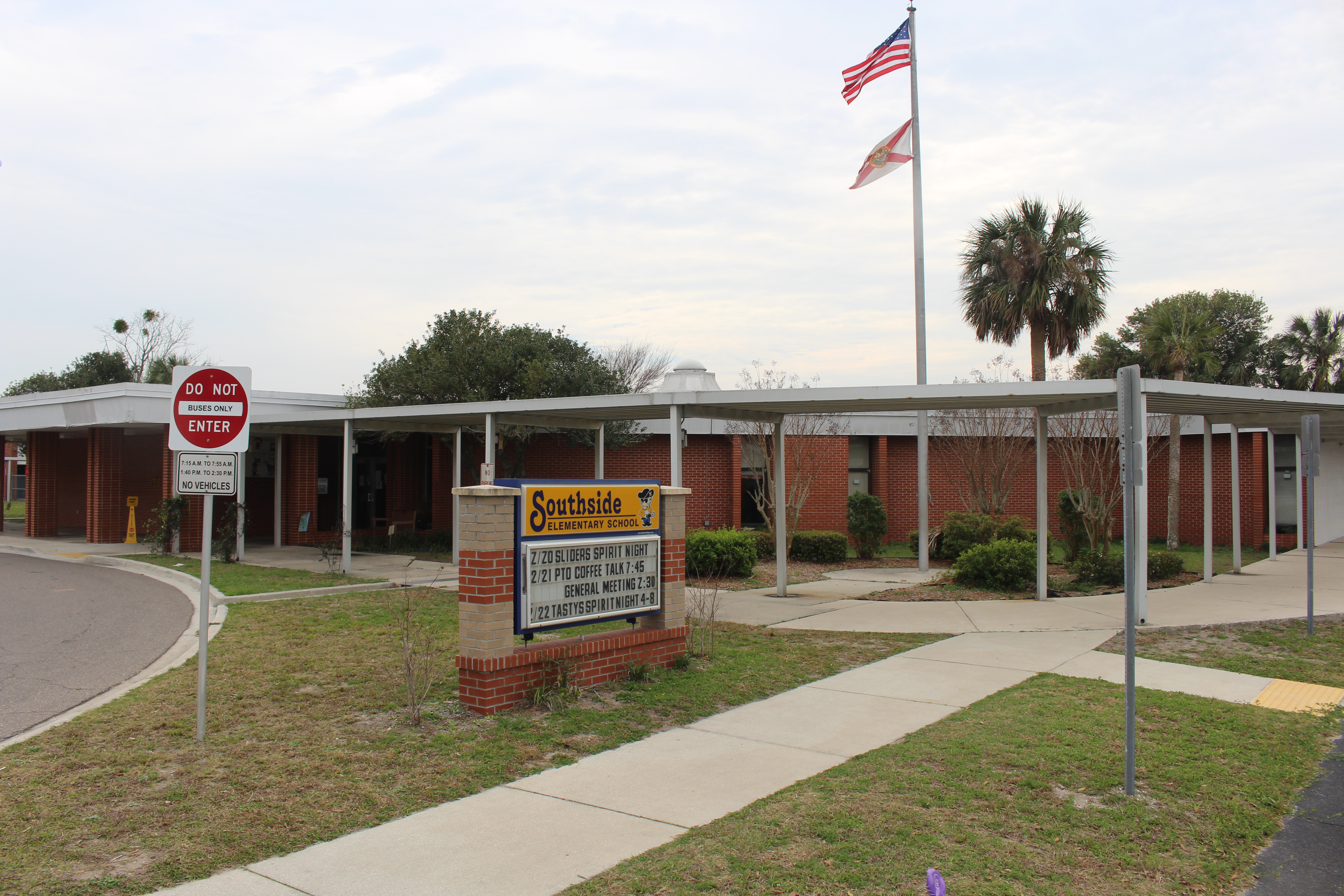 Southside Elementary School, 1112 Jasmine Street, Fernandina Beach, Nassau County, Florida